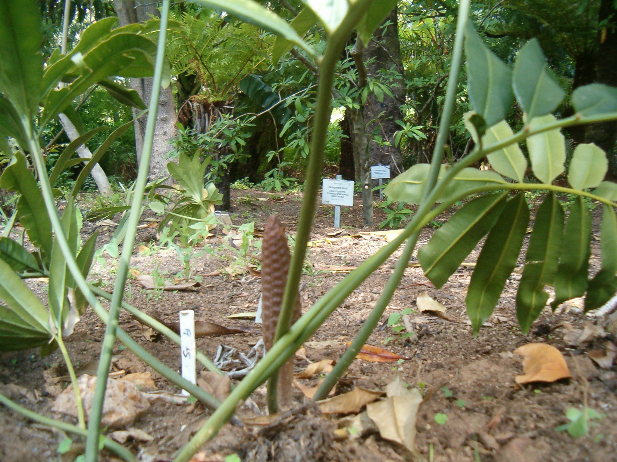 At Kirstenbosch National Botanical Gardens Species Stangeria eriopus